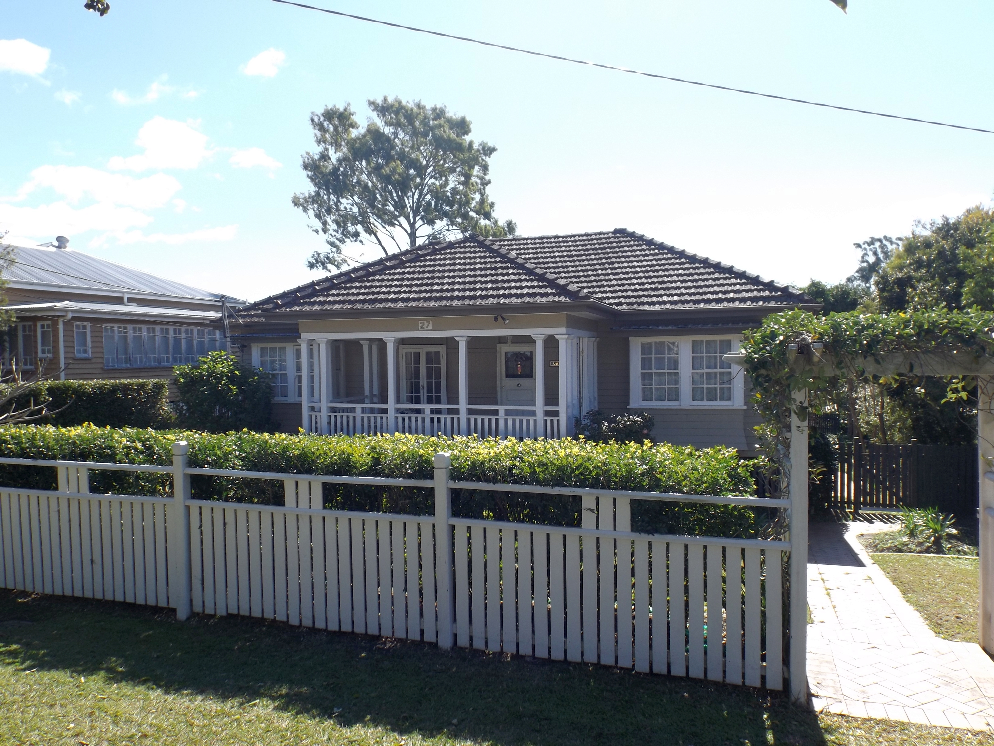 Photo of Uanda residence in Wilston, Brisbane, Queensland, Australia.